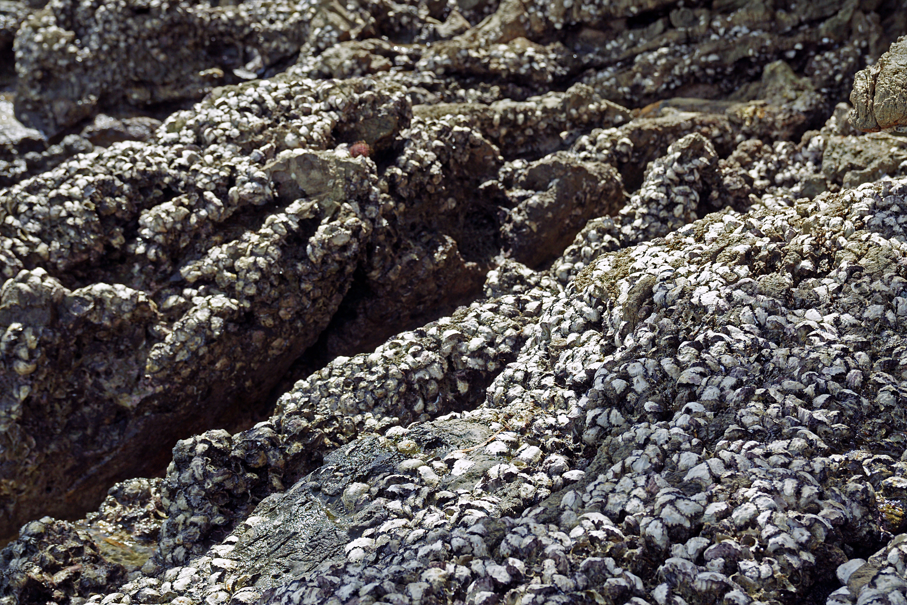 Bivalvia on rock in Ko Kai, Krabi, Thailand.